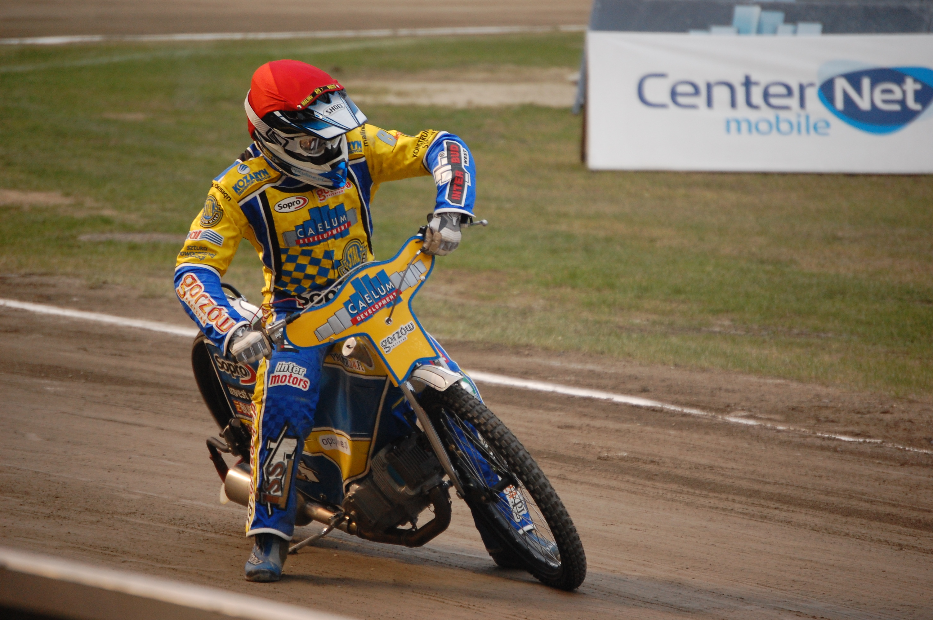 Polish speedway rider, Paweł Zmarzlik during match of Stal Gorzów